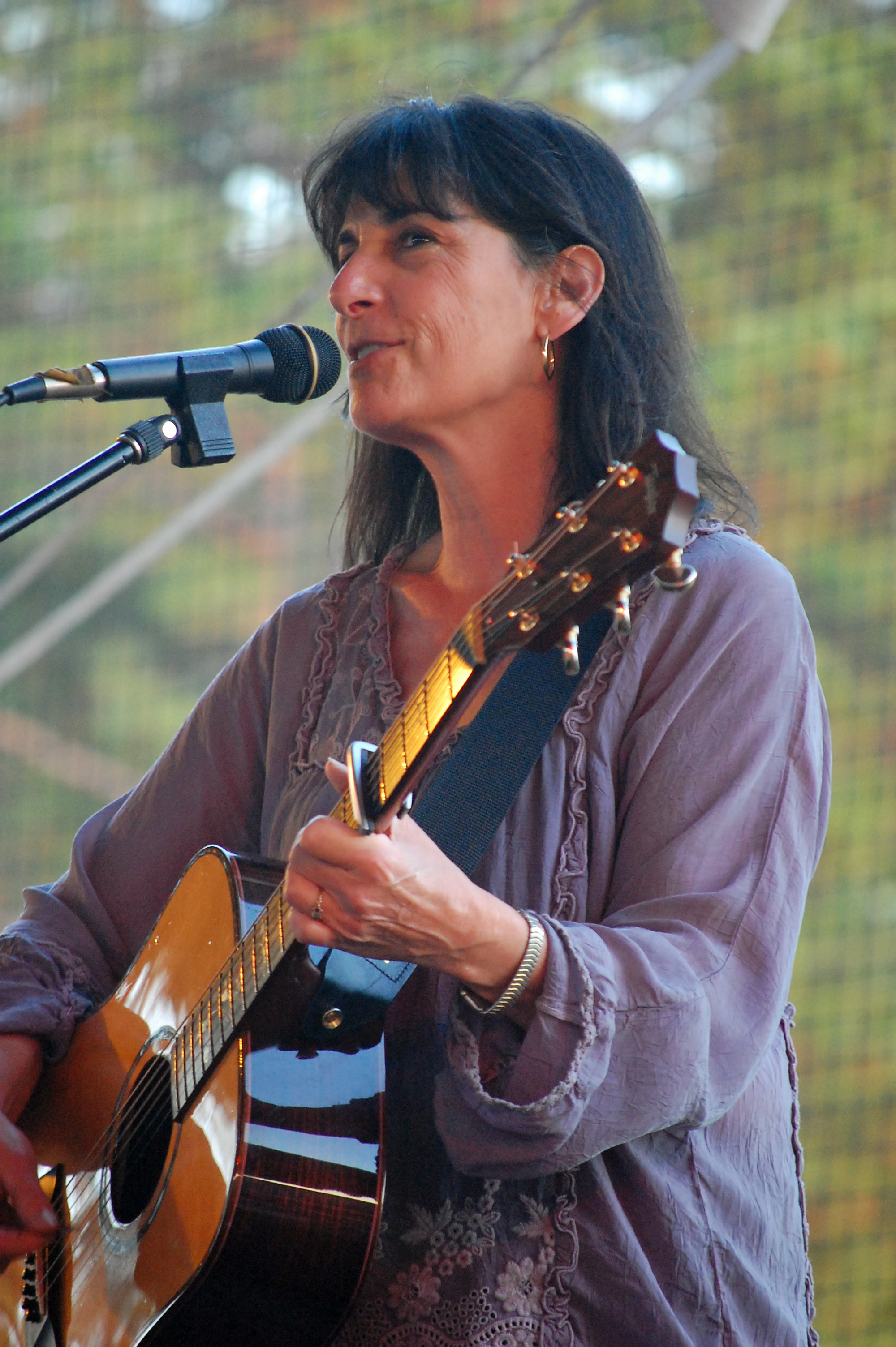 Karla Bonoff performing, 10/10/10